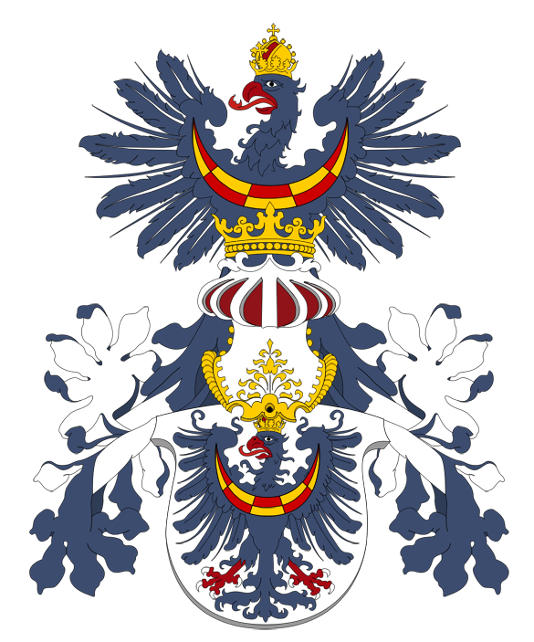 Based on historical picture of coat of arms of Carniola. Made by me using Macromedia Fireworks and Adobe Photoshop.